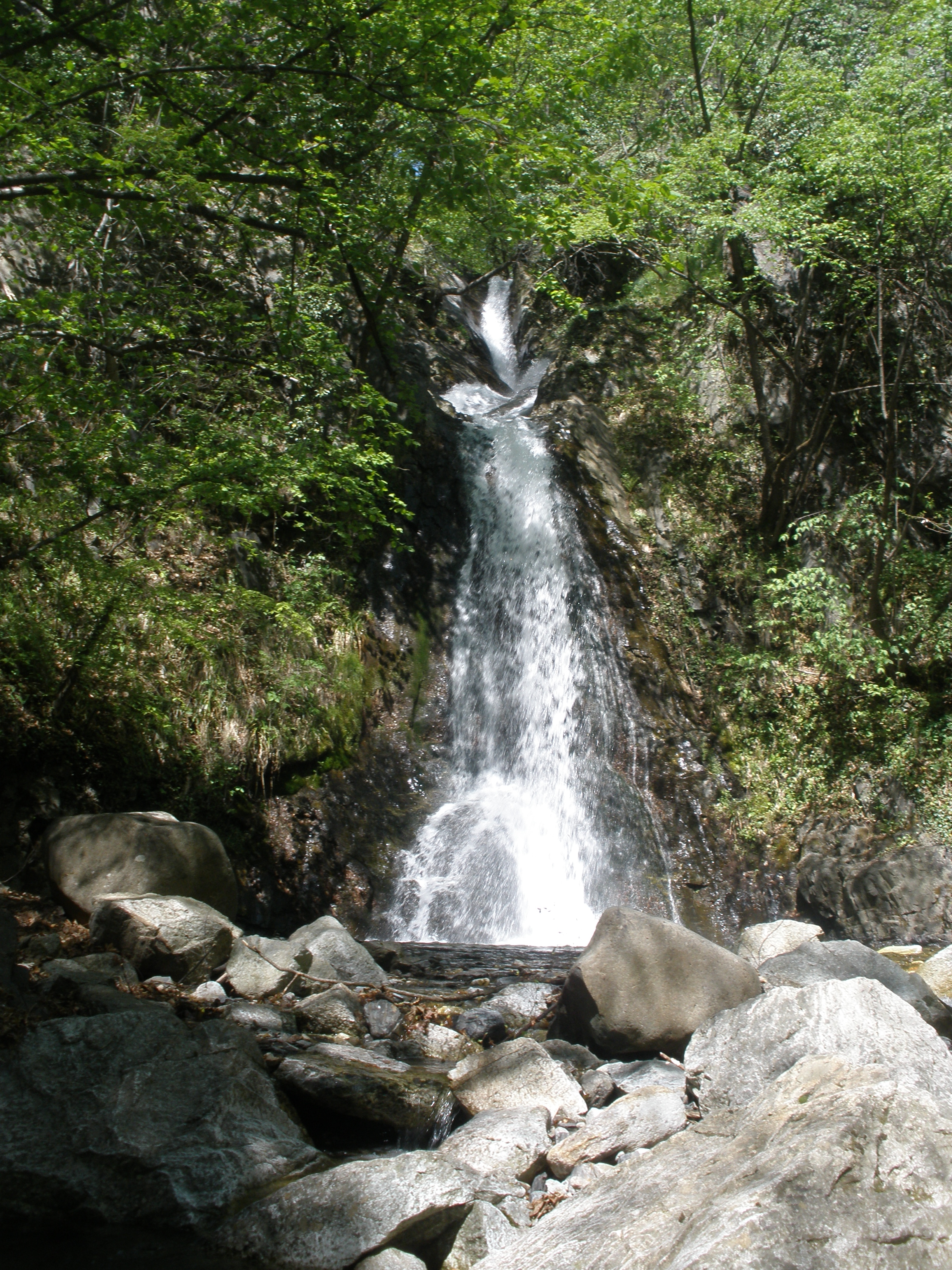 Sopot waterfall, Bulgaria, Central Balkan